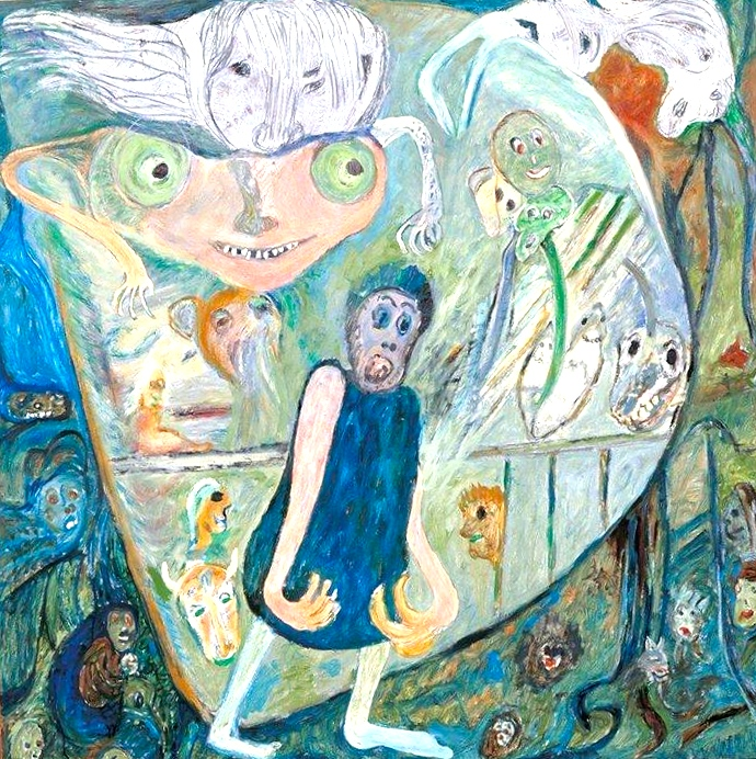 Between Two World (John Serl)